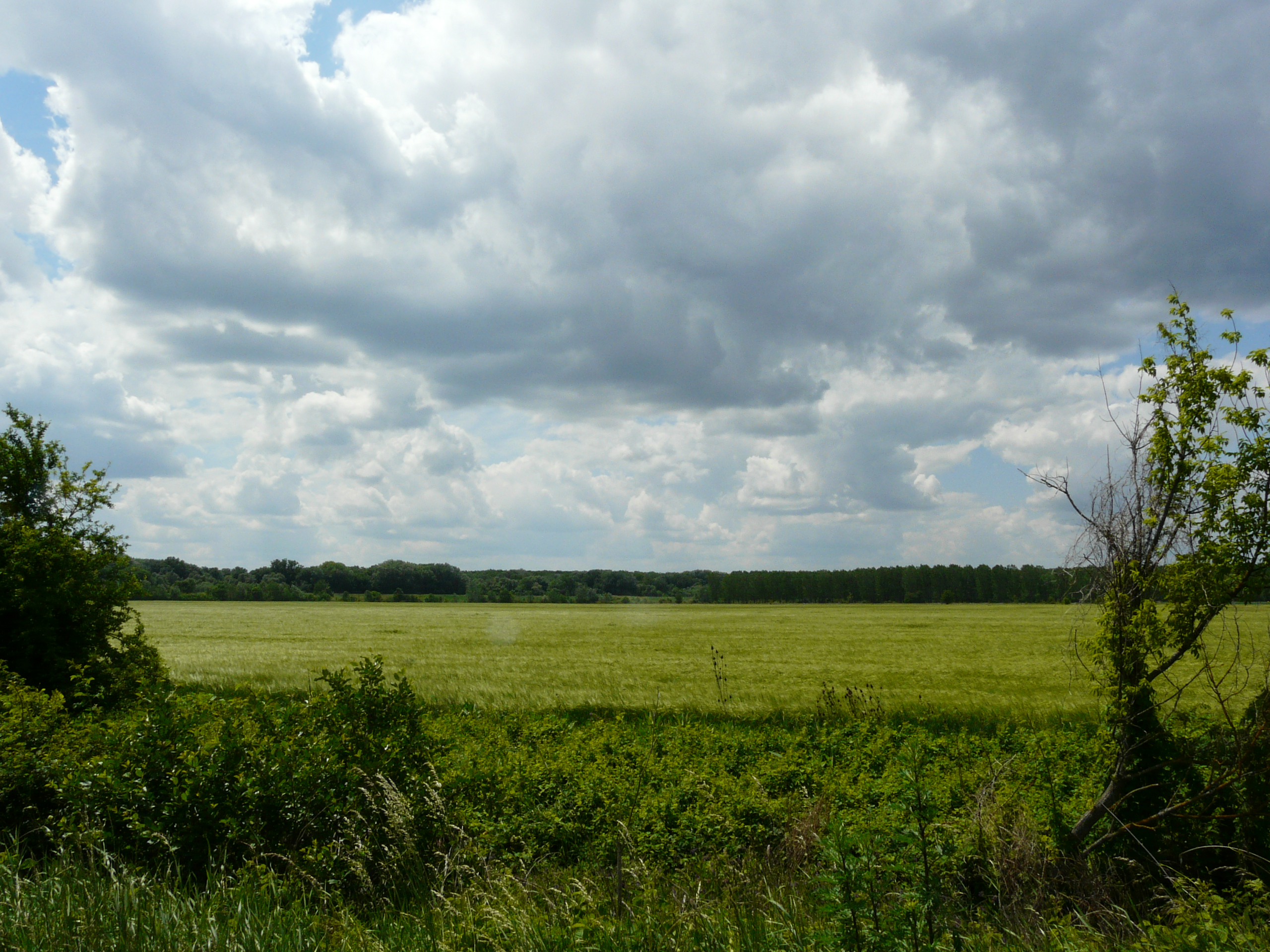 A Tisza, Tápéval szemközti oldalán található a Tápéhoz hasonlóan szintén ősi vidék: a Tápai-Rét.